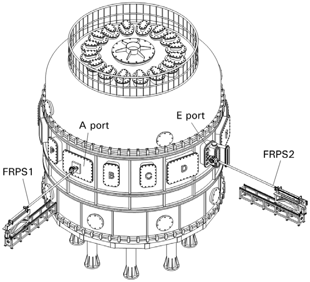 EAST tokamak (Experimental Advanced Superconducting Tokamak) and two reciprocating probe systems, toroidally separated by 89°.